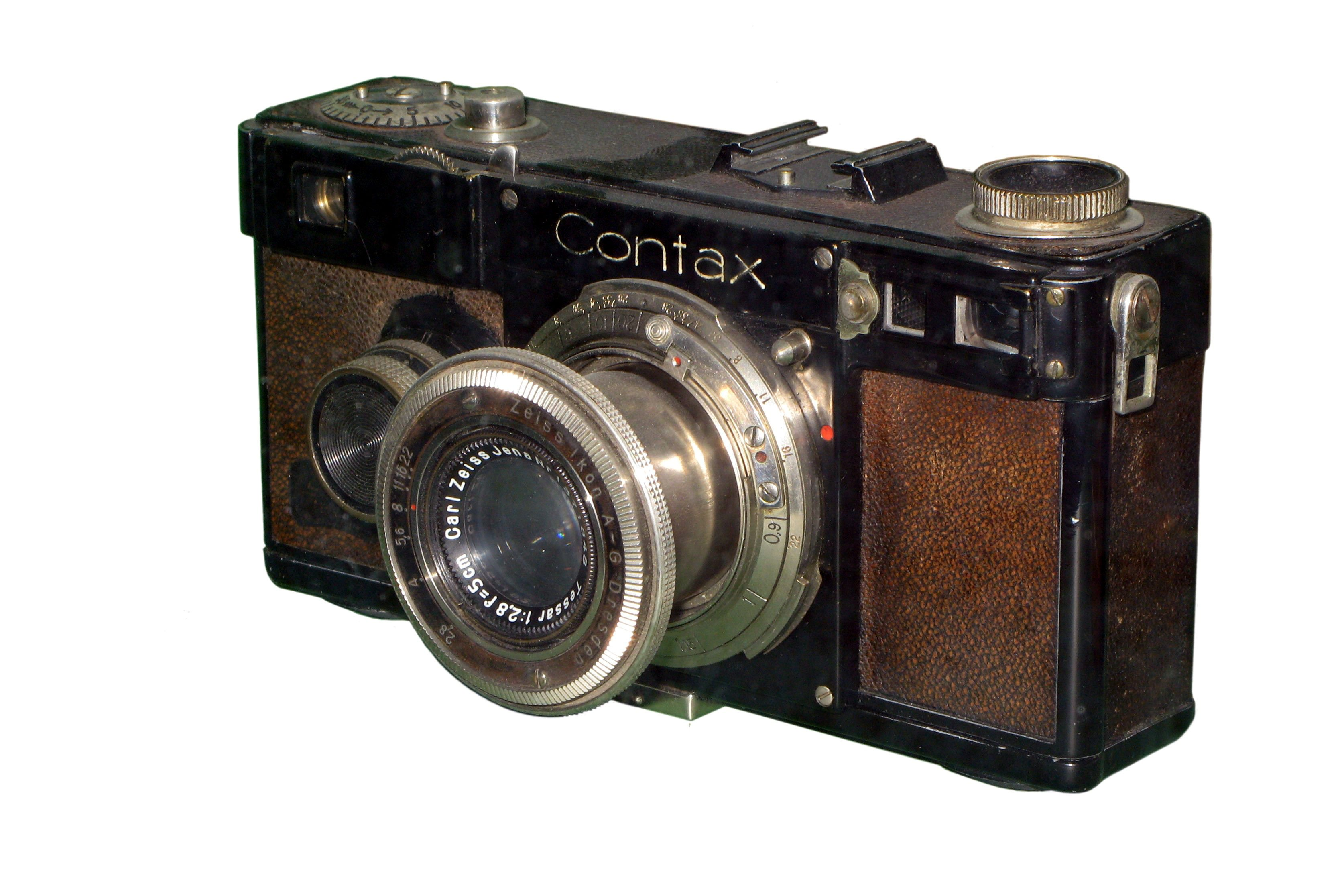 Contax I camera model, produced between 1932 and 1936.